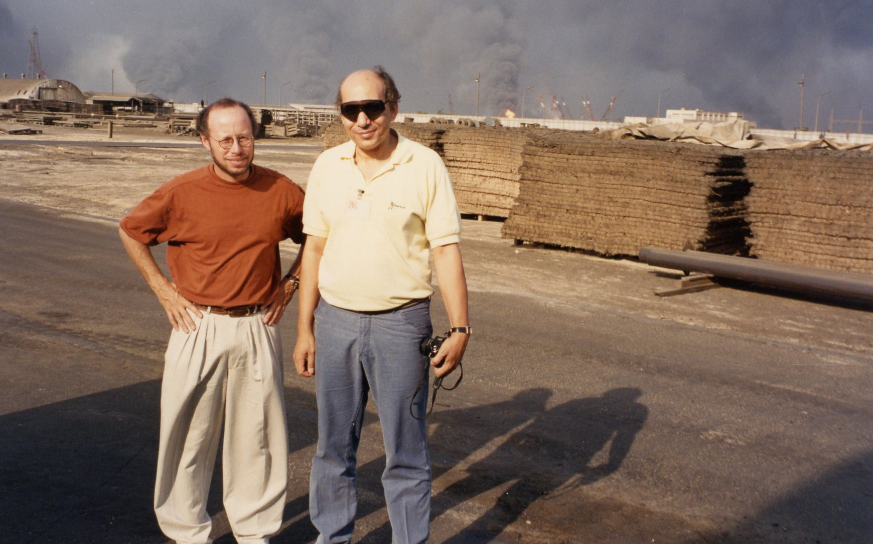 Alfarouq Abdul Aziz